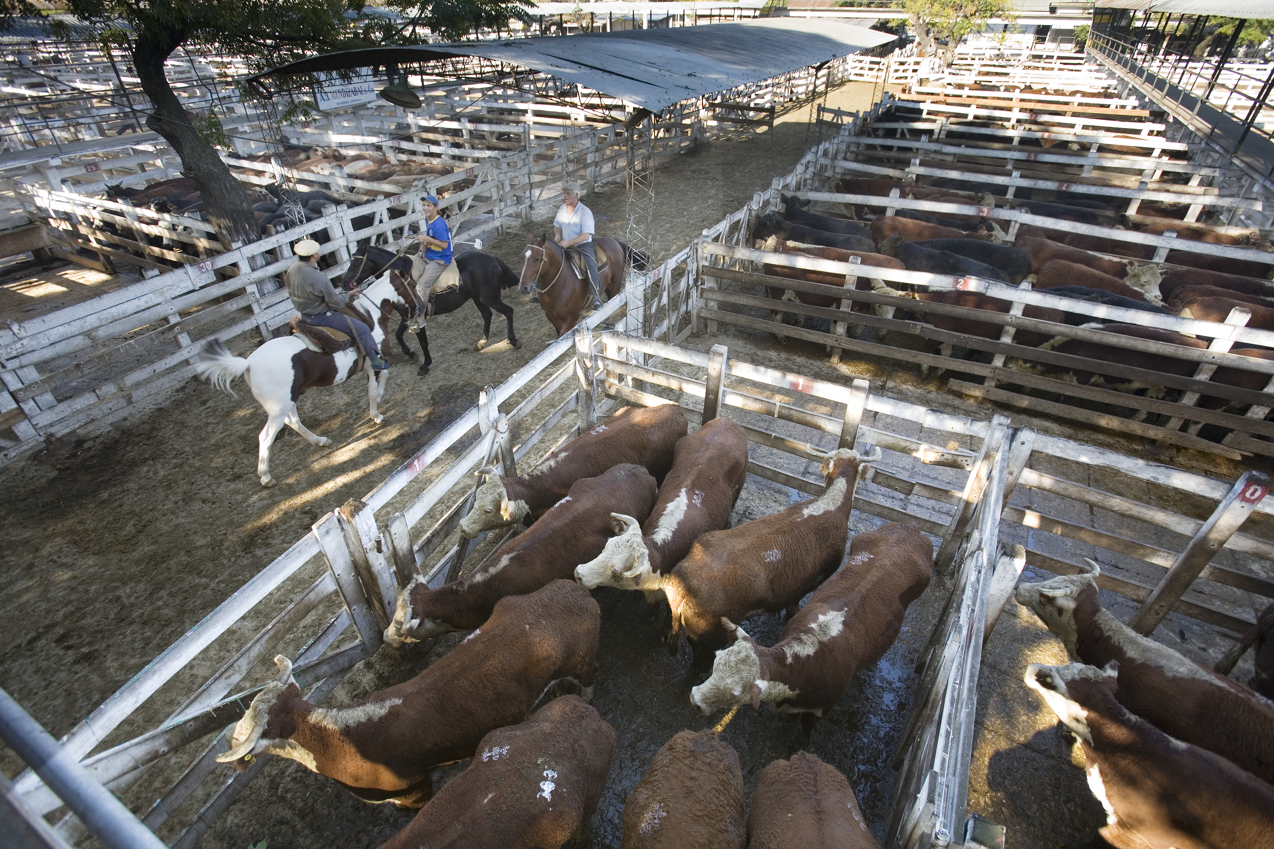 A cattle market in Buenos Aires Argentina